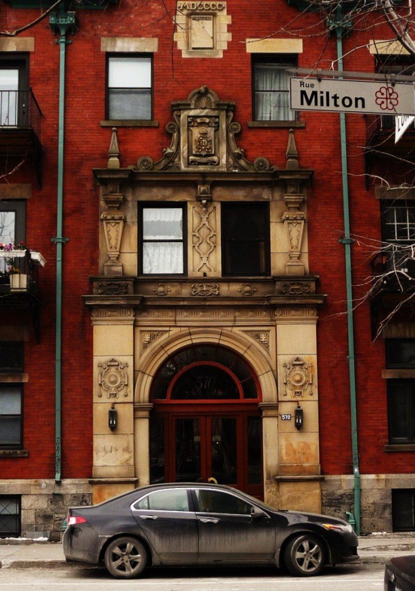 The Marlborough Apartments on Milton Street in Montreal, Quebec, Canada. A National Historic Site of Canada.